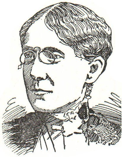 Frances Elisabeth Willard